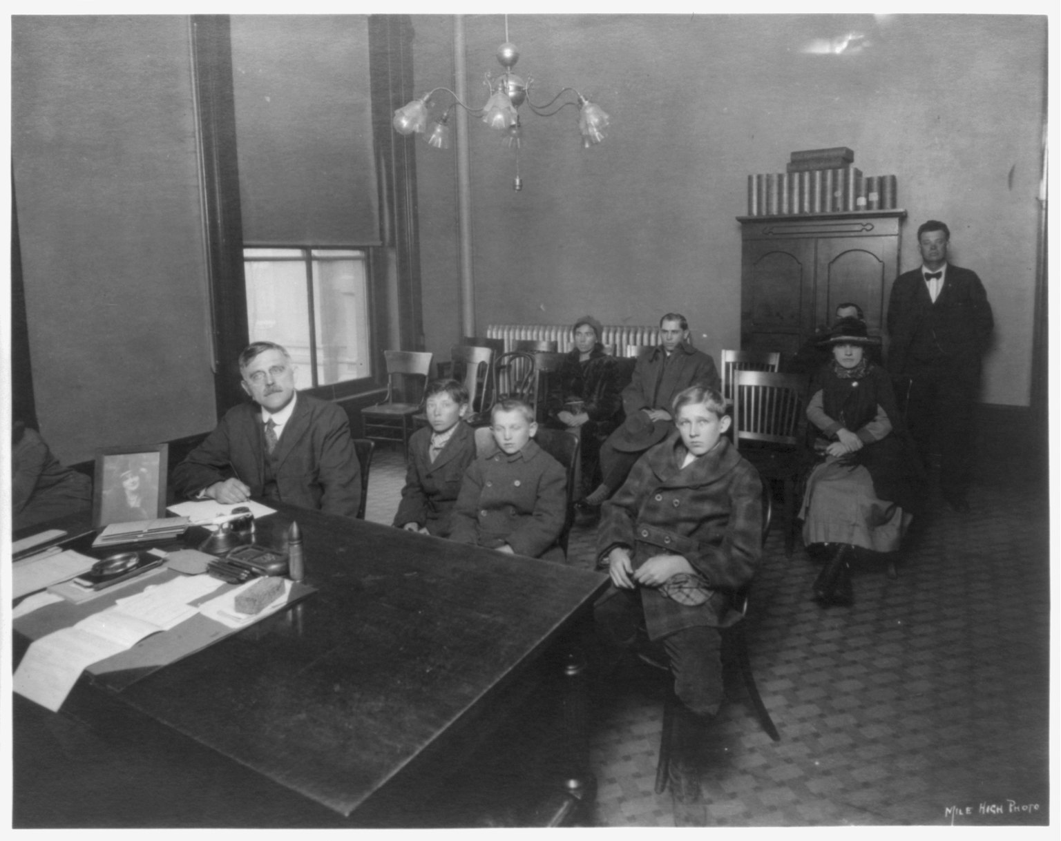 Title: Judge Ben Lindsey's Juvenile Court chambers; 3 boys and 6 adults shown, Denver, Colorado Abstract/medium: 1 photographic print.